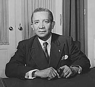 Edwin Barclay, President of the Republic of Liberia, paid tribute to this nation's founder Saturday, May 29, 1943